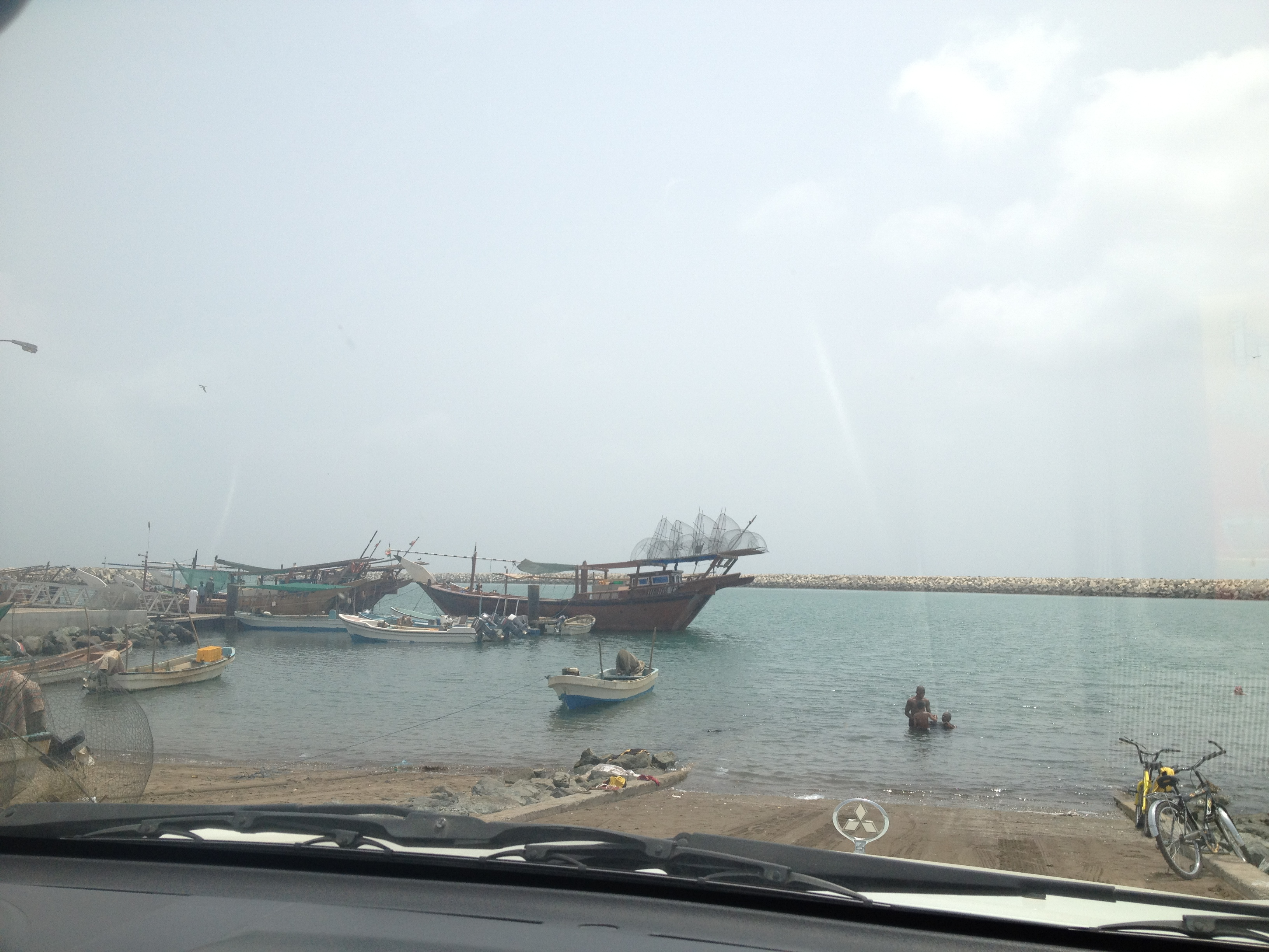 Shinas Port